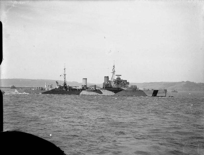 HMS Mauritius Moored.